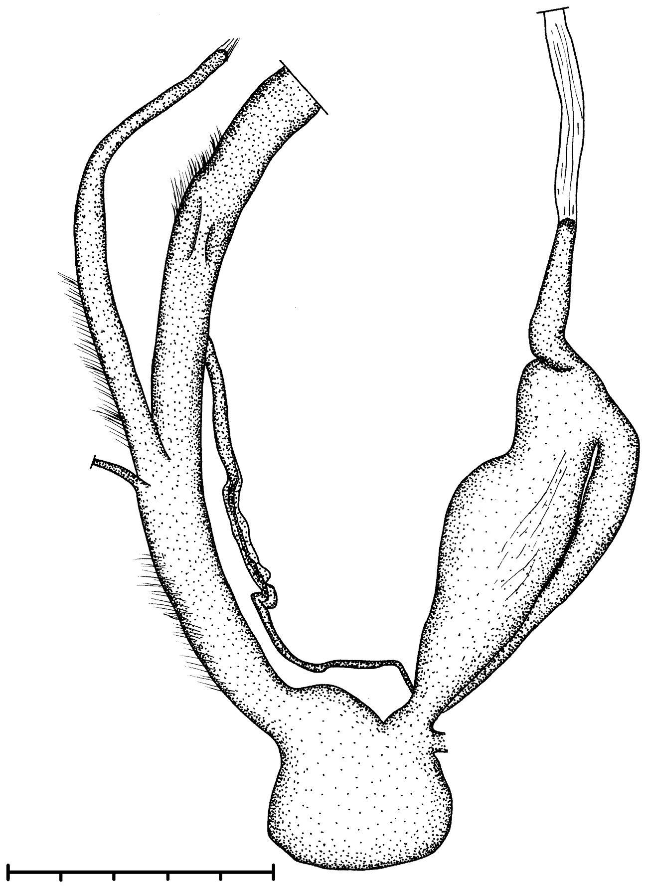 Reproductive system of Gudeodiscus messageri raheemi. Scale bar is 5 mm. Locality: 11L06, Laos, Luang Prabang Province, ca. 18 km SE of Muang Xiang Ngeun, on the left side of Nam Khan, limestone, black soil in limestone pockets, clay, under rocks and logs in old forest, 455 m a.s.l., 19°40.931'N, 102°19.743'E, leg. A. Abdou & I.V. Muratov, 30.10.2006, MNHN 2012-27054/38 shells (some of them are broken/juvenile) + anatomically examined specimen.